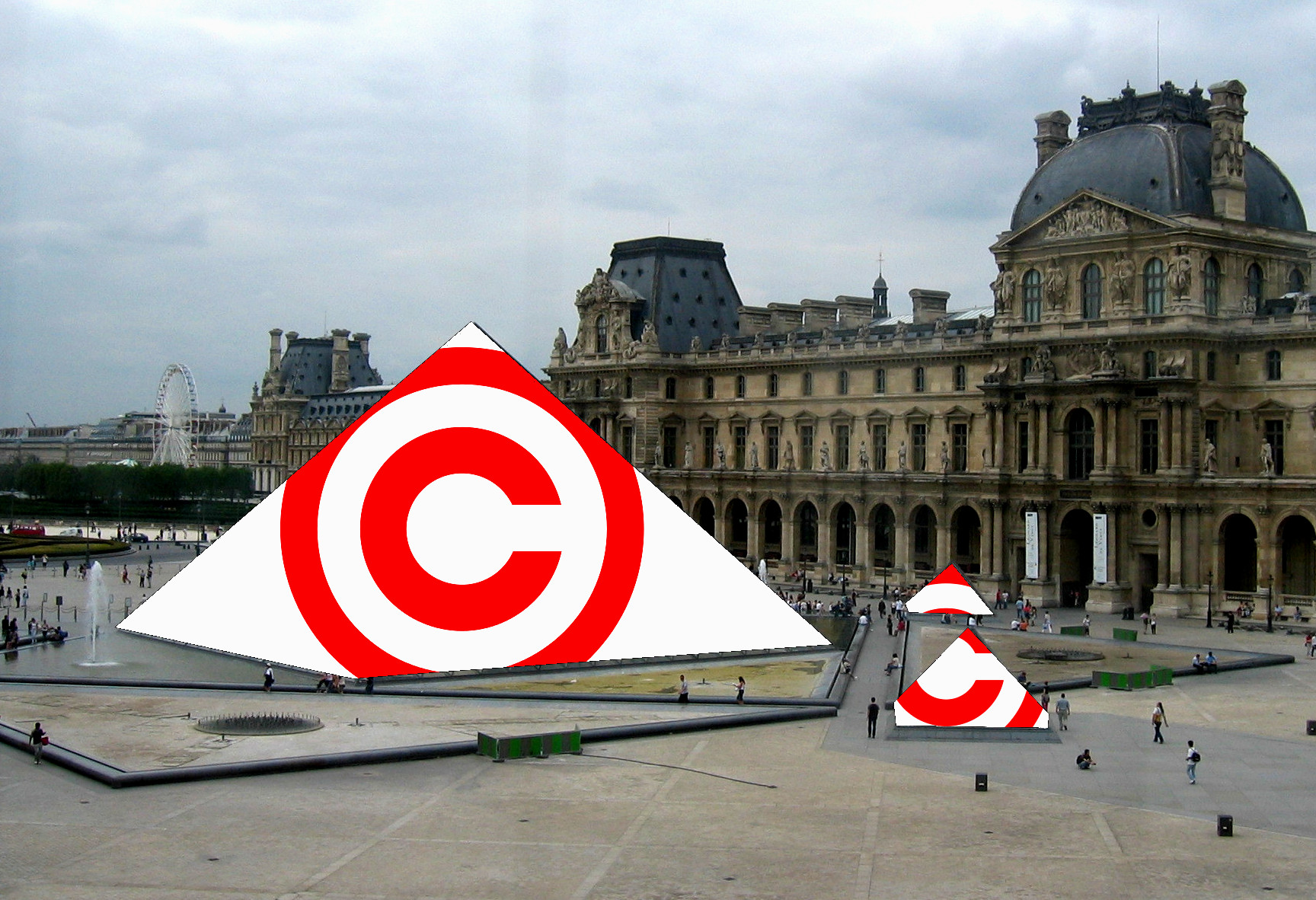 Louvre Pyramid - censored copyright v2, to illustrate the lack of FoP in France. The image has no copyrighted elements.